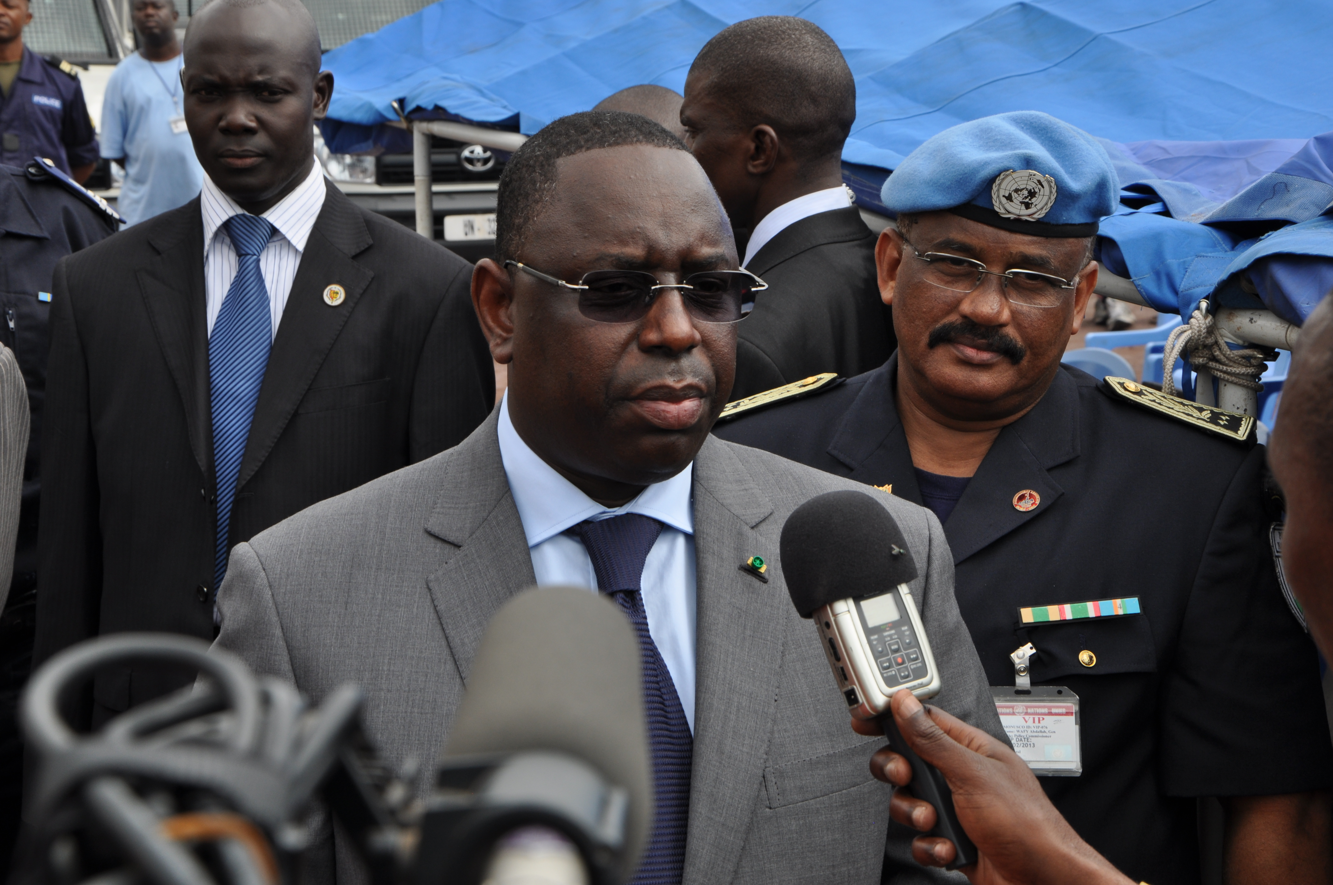 President Macky Sall of Senegal